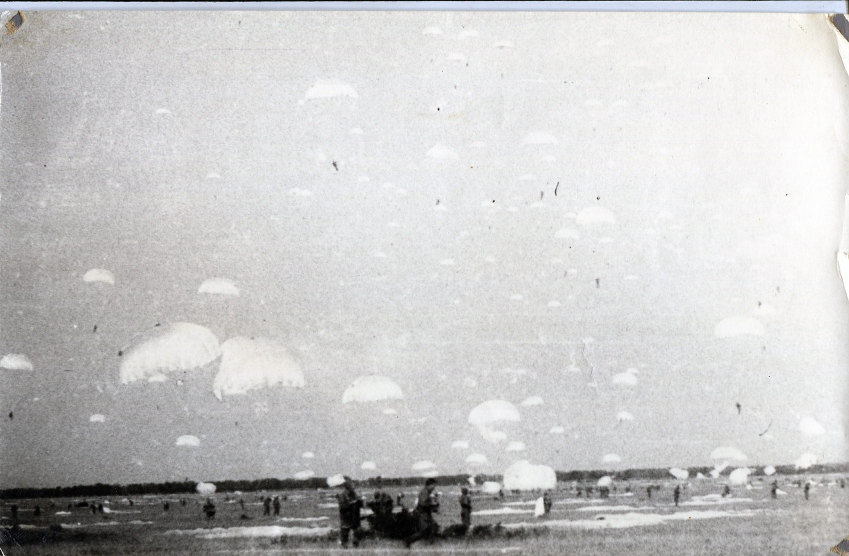 Mass paradrop of 217th Airborne Regiment during YUG-71 military exercise, which took place in July 1971, in the neighboring area around Kerch.